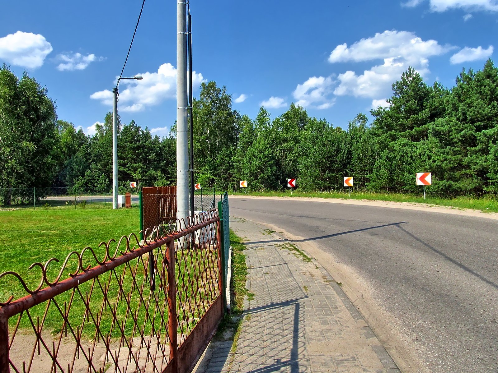 A sharp bend in the center of the village